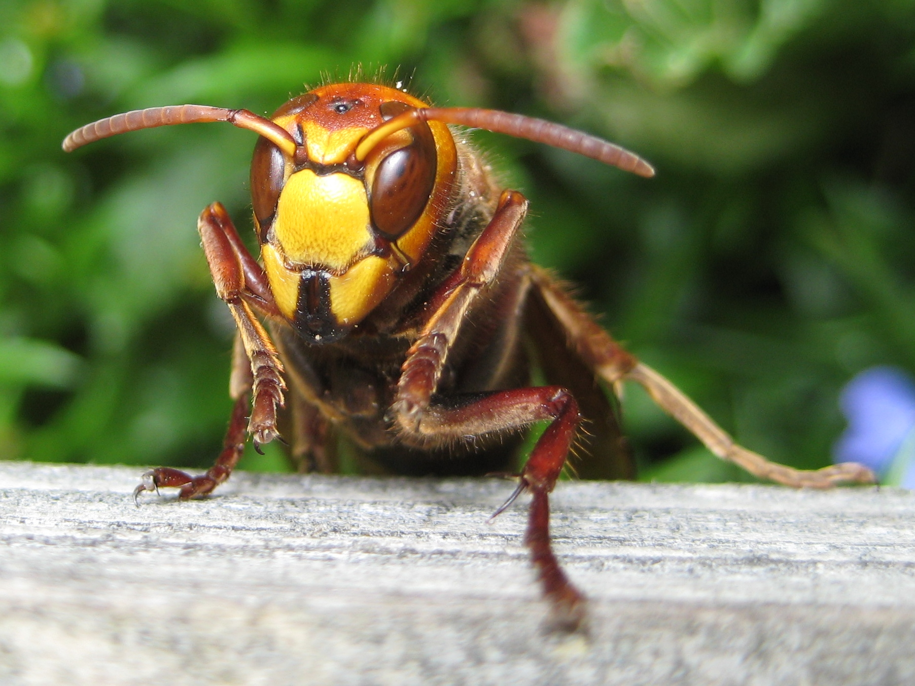 European hornet